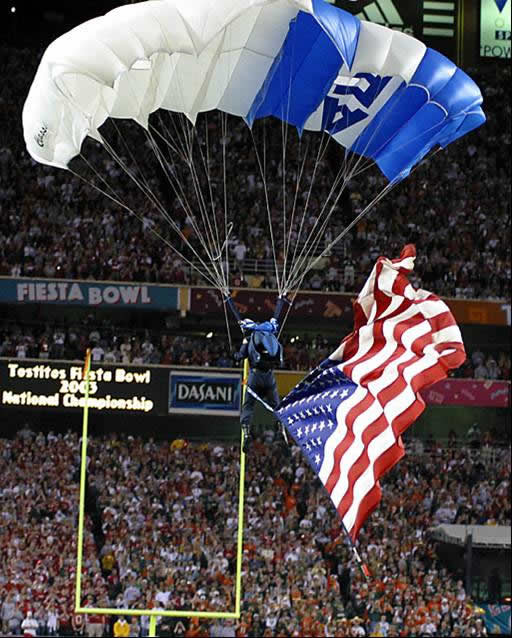 Air Force parachute demonstration at the 2003 Fiesta Bowl